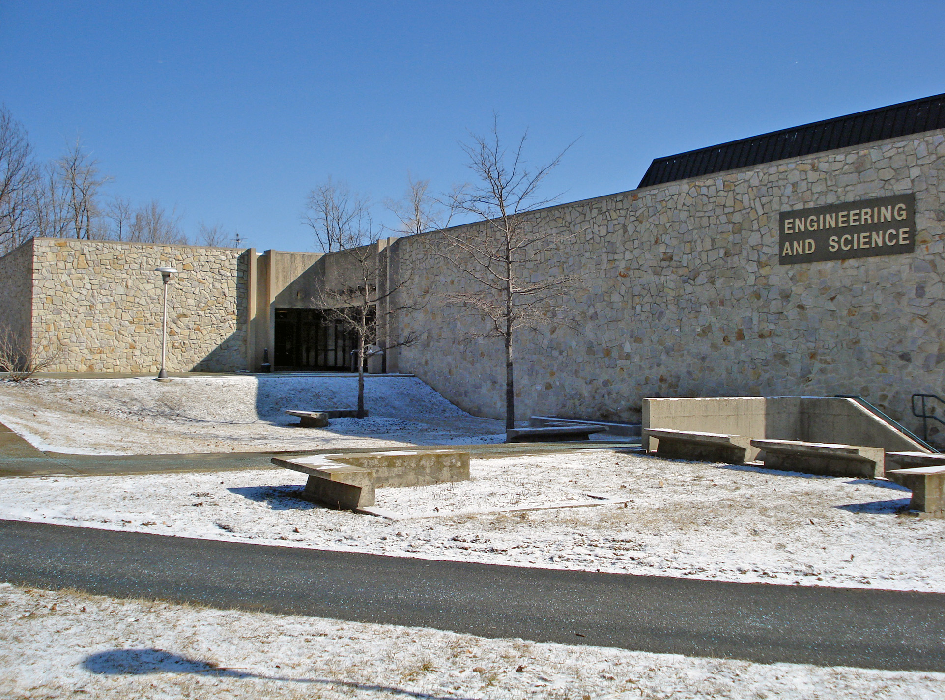 Engineering and Science Building at the University of Pittsburgh at Johnstown